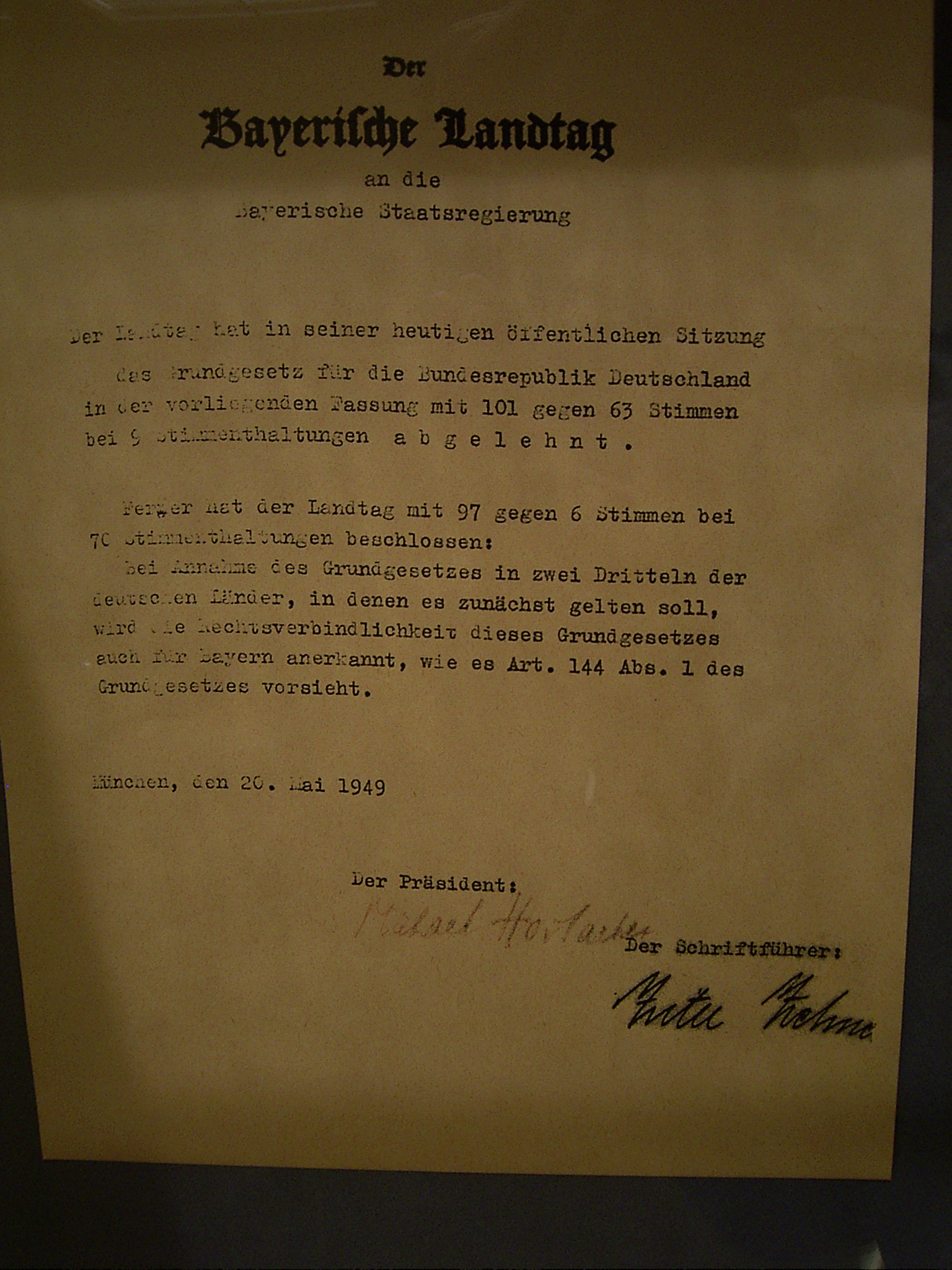 Notice from the bavarian parliament ("Bayrischer Landtag") to the bavarian state government on refusal of the Basic Law ("Grundgesetz") with a clause of legally valid in bavaria in case of ratification by 2 thirds of the german states. (May 20th 1949)